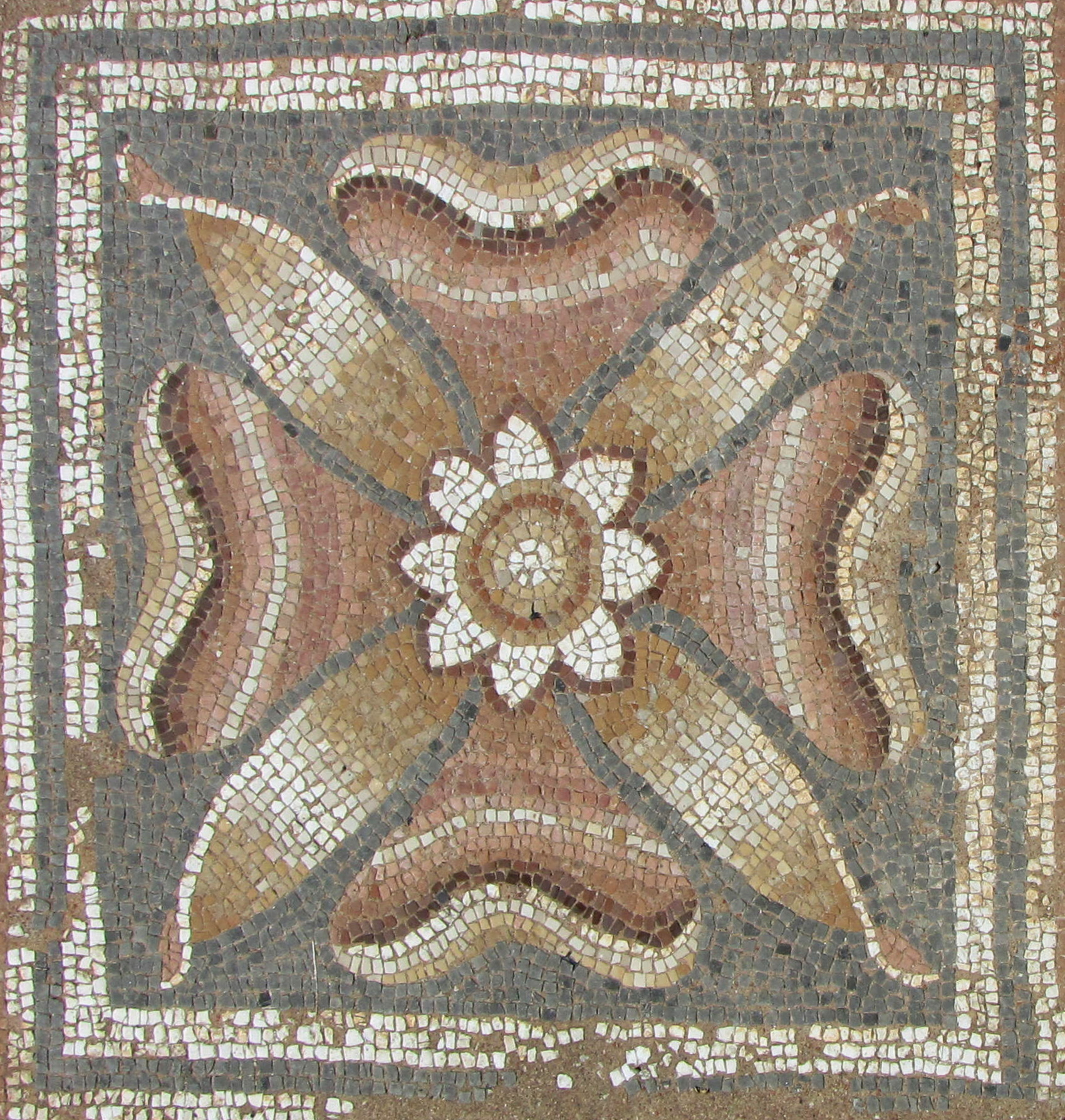 Mosaic